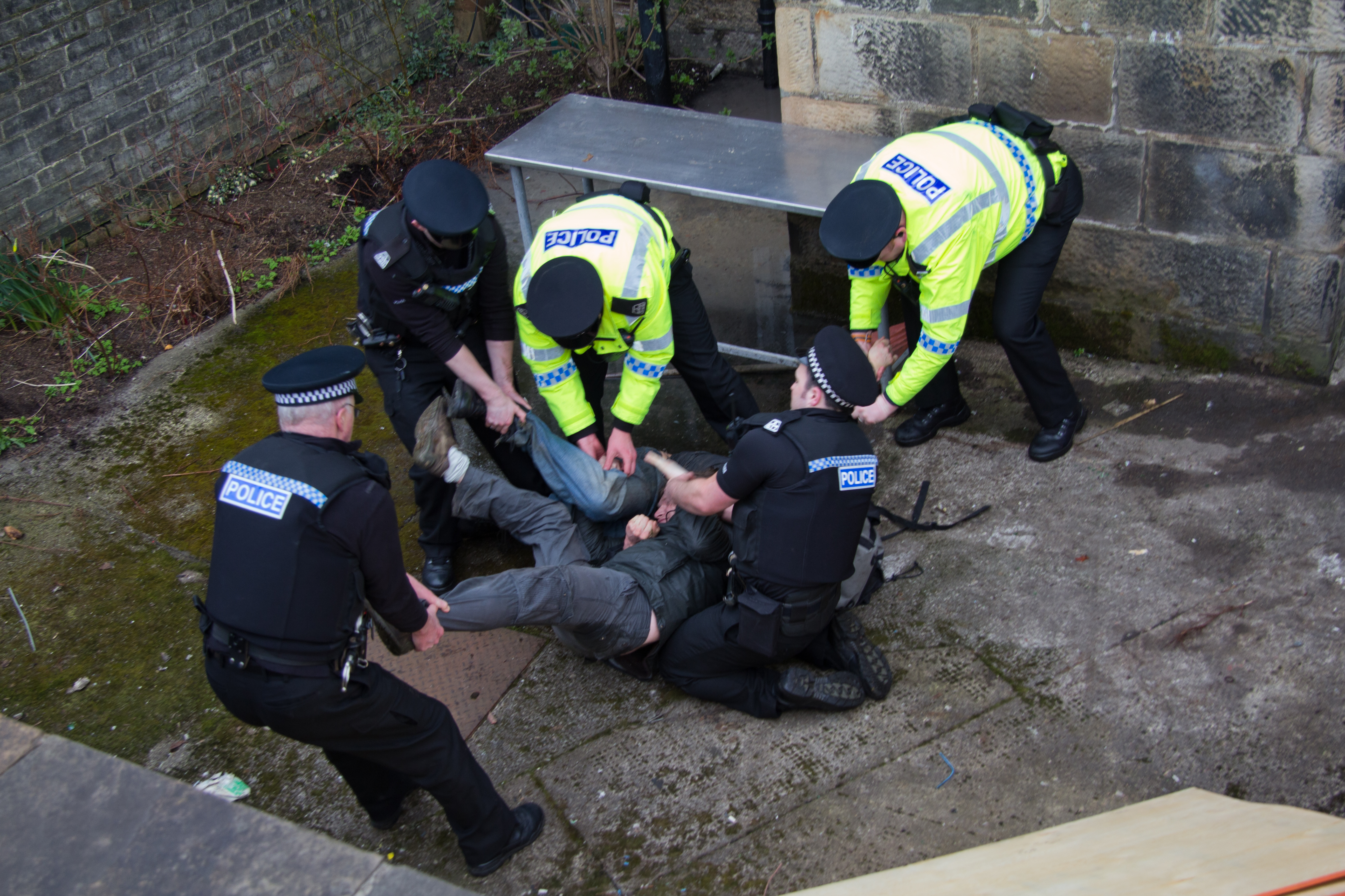 Two men are forcefully removed by police officers from the back door area of Hetherington House during the eviction of the Free Hetherington occupation at the University of Glasgow on 22 March 2011